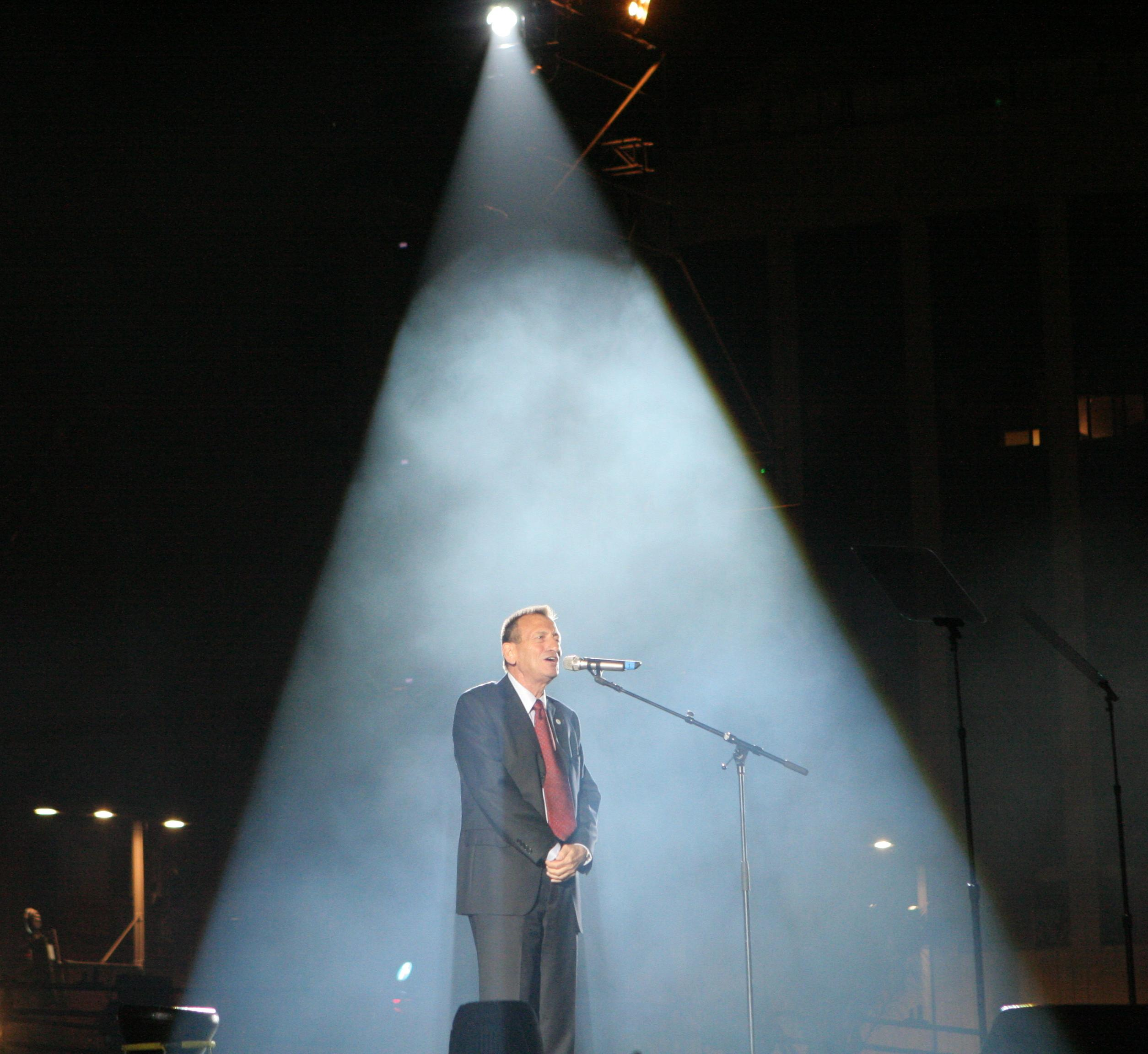 Ron Huldai - Tel Aviv Mayor